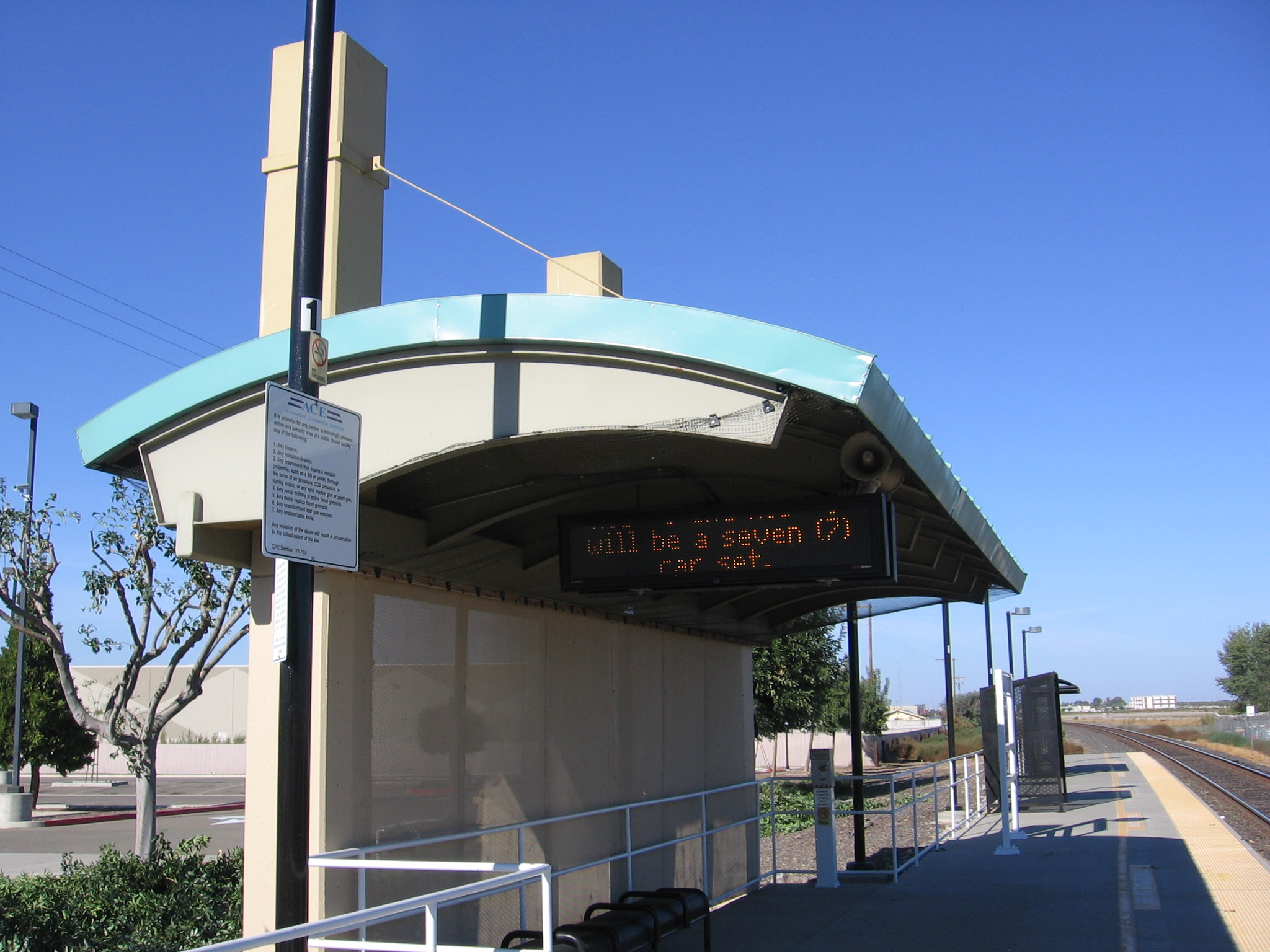 The Lathrop/Manteca (ACE station) on the border between Lathrop and Manteca, California, USA.